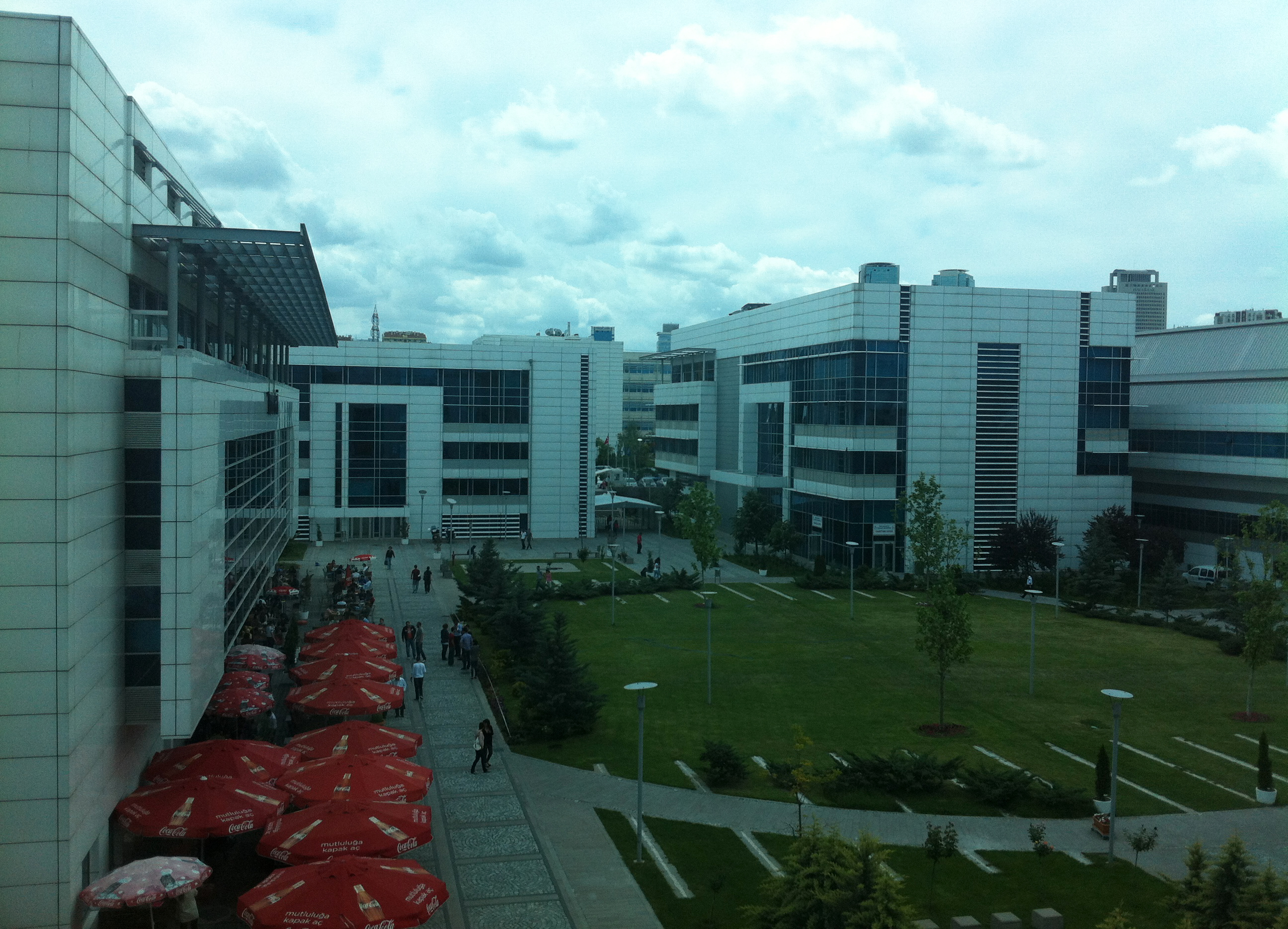 TOBB ETÜ Campus.